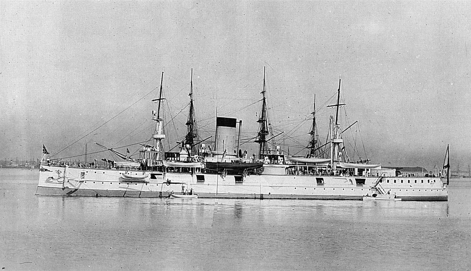 Imperial Russian arumoured cruiser Admiral Nakhimov, 1903.